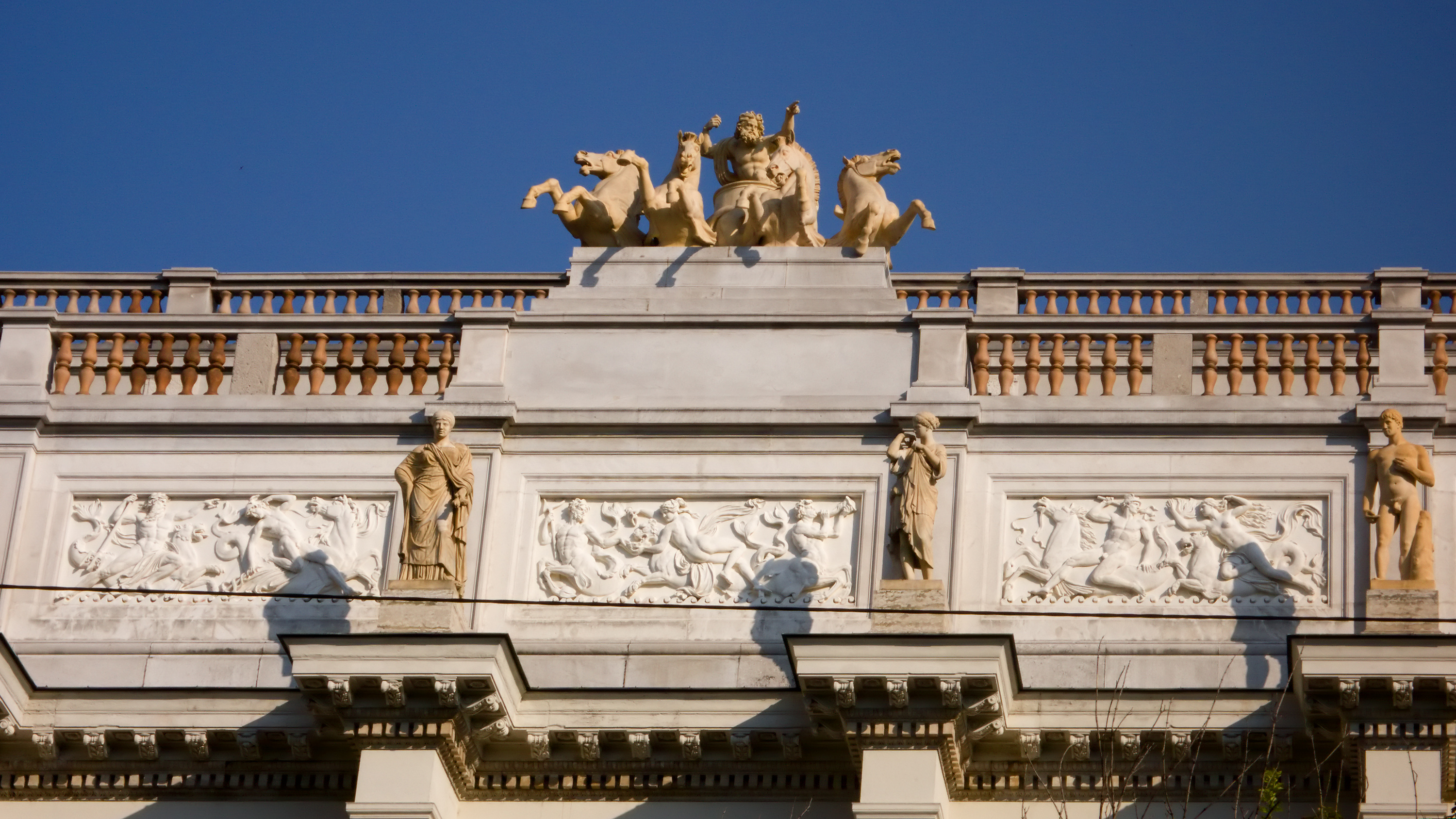 Stock Exchange Wiener Börse (Gebäude) in Vienna Innere Stadt